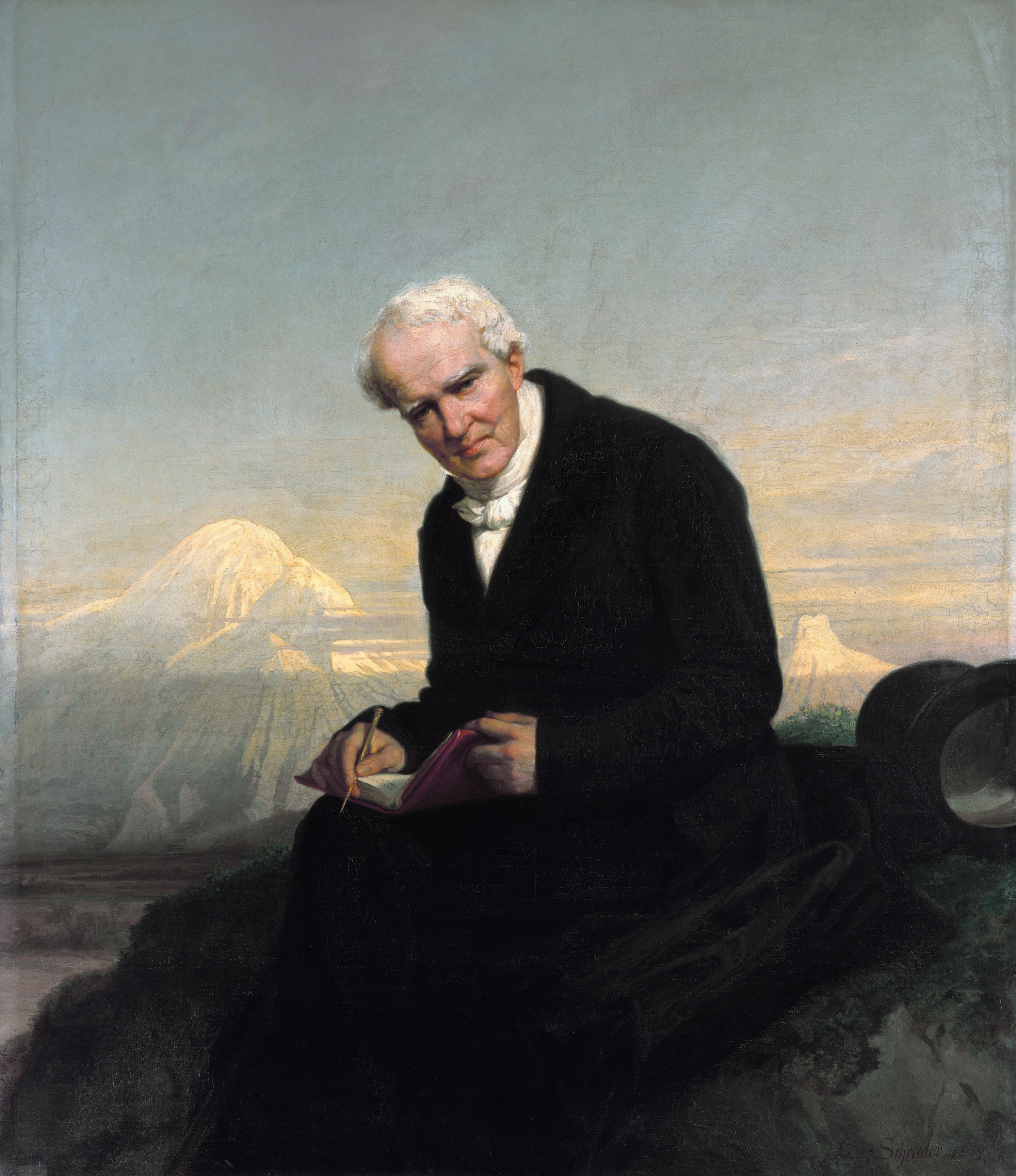 "Baron Alexander von Humboldt," oil on canvas, by the German artist Julius Schrader. 62 1/2 in. x 54 3/8 in. (158.8 cm x 138.1 cm) Courtesy of the Metropolitan Museum of Art, New York, New York.